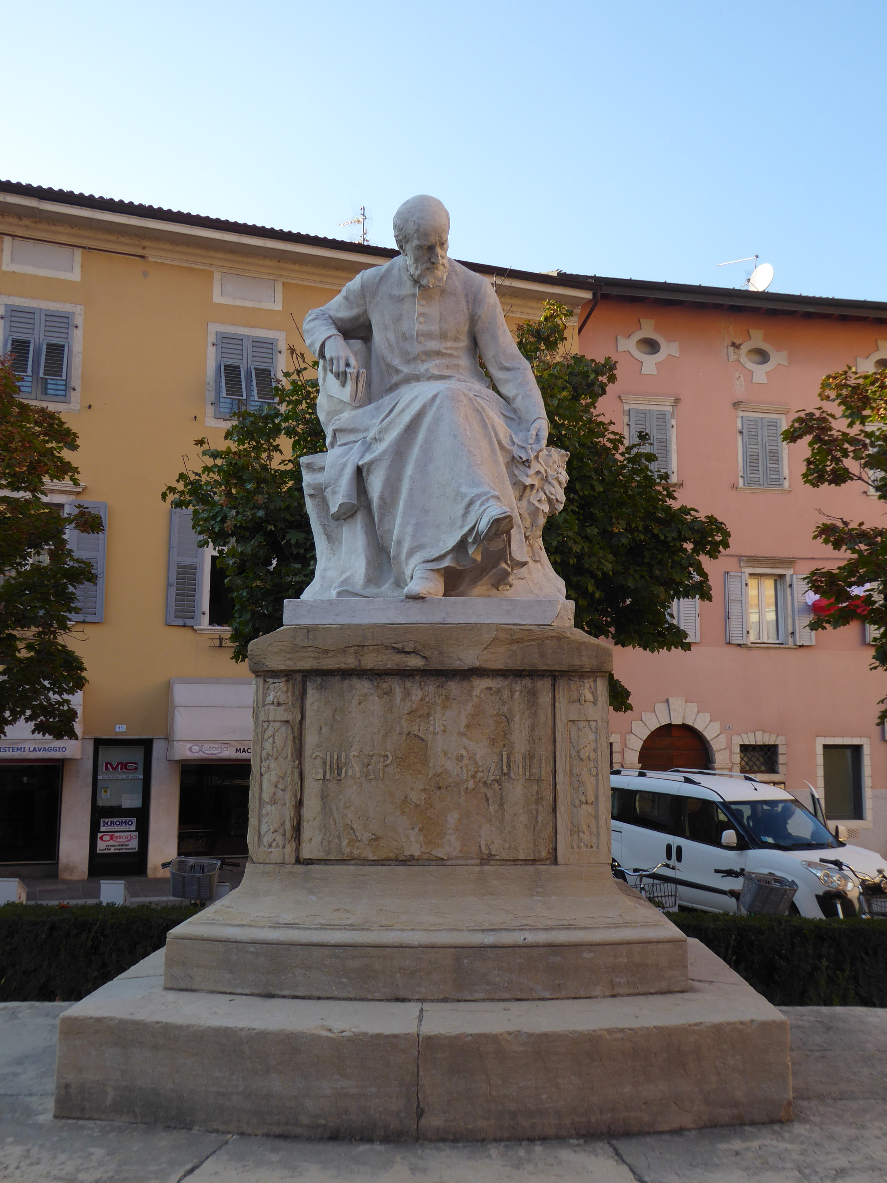 Lavis (Trentino, Italy) - Statue of don Giuseppe Grazioli (by Stefano Zuech, 1912)